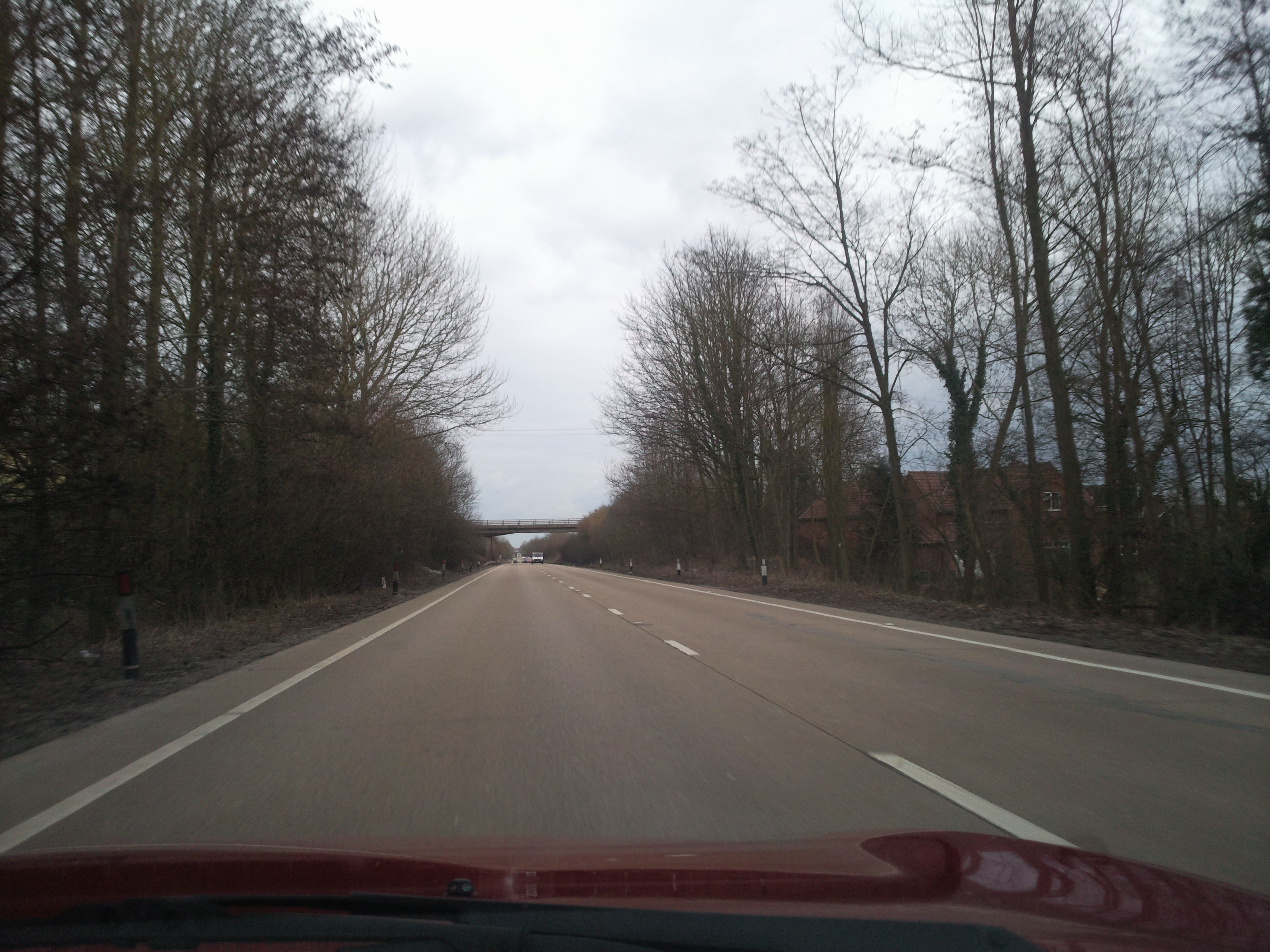 A photo taken on the section of the A47 that was formerly Wendling railway station.